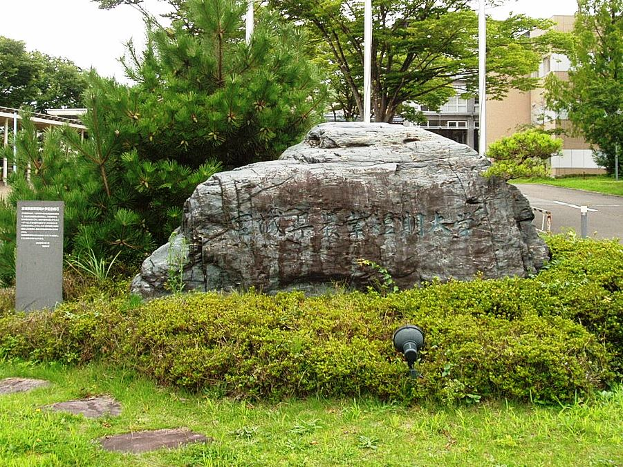 Memorial of Miyagi Agricultural College, the predecessor of the School of Food, Agricultural and Environmental Sciences, Miyagi University. Located in Taihaku-ku, Sendai, Miyagi, Japan.